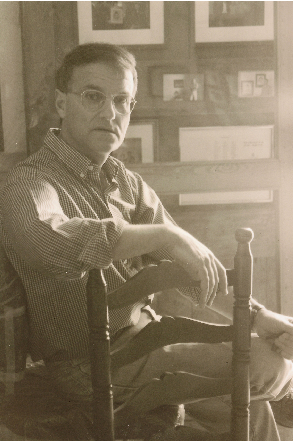 Robert Perez Palou in his art studio